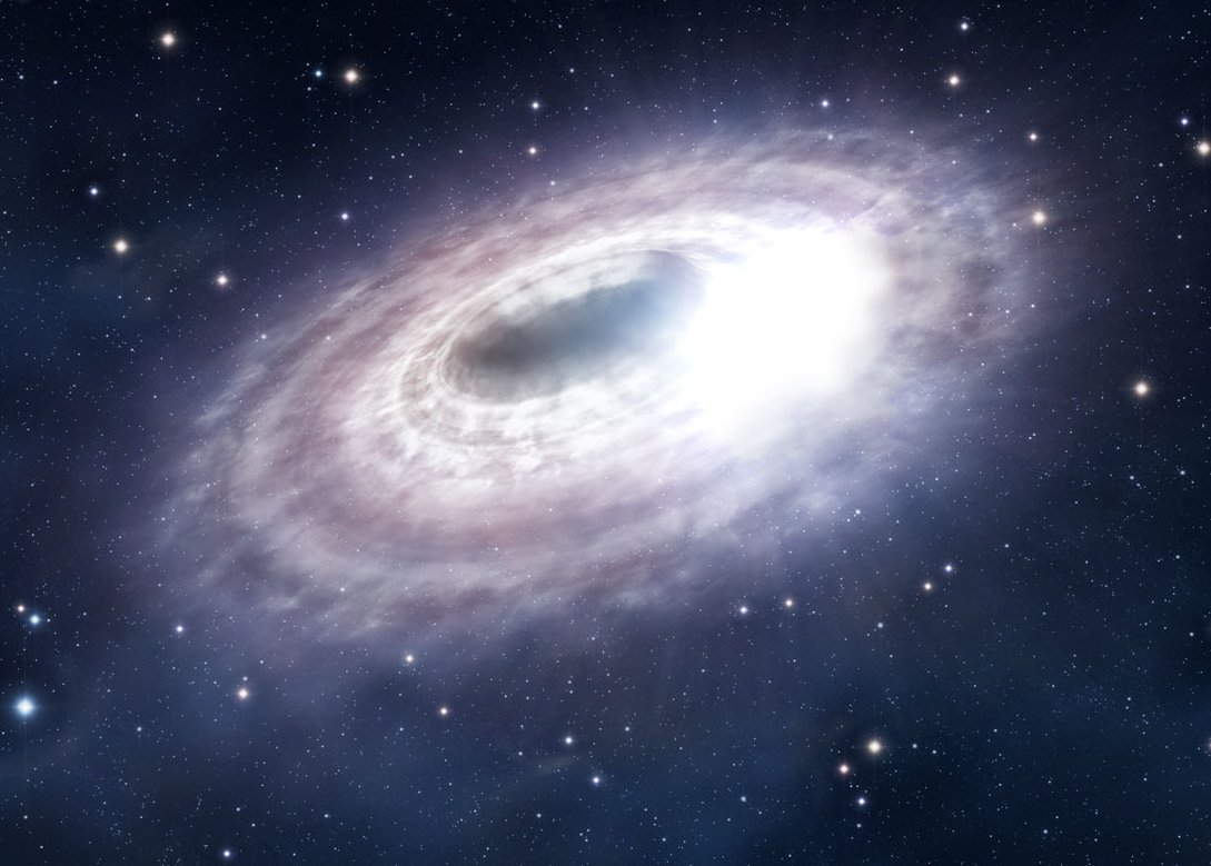 Artistic impression of a material disc with illuminated gas around Sgr A*